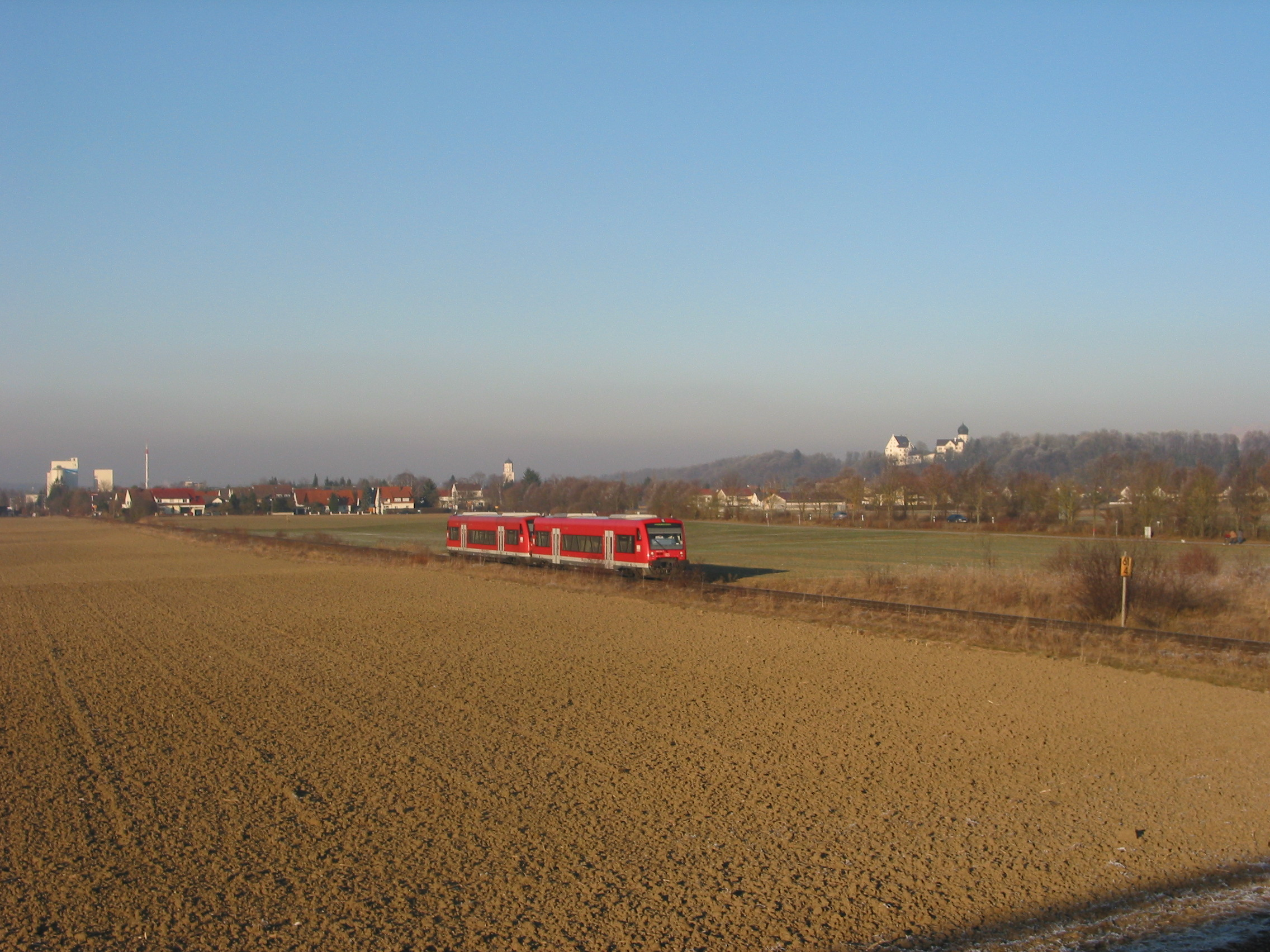 Regional train class 650 south of Illertissen in direction to Memmingen; view at Illertissen with St. Martin Church and Vöhlin Castle.